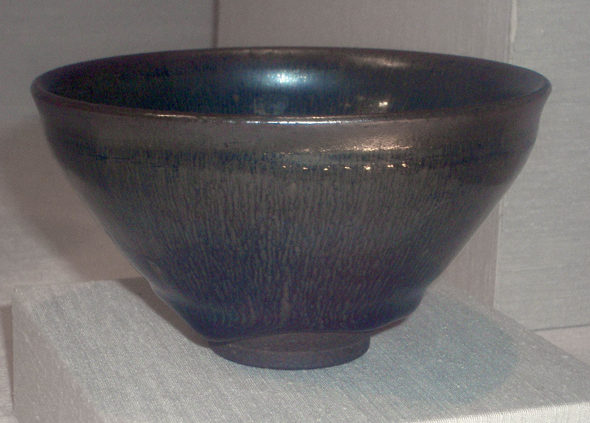 Tea bowl from Jian, China in the Song dynasty (960-1279) in the collection of Metropolitan Museum of Art, New York. H.O. Havemeyer Collection. The glaze is called hare's fur, one form of tenmoku glaze.